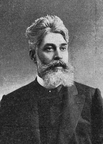 Zenger Grigorij Eduardovich